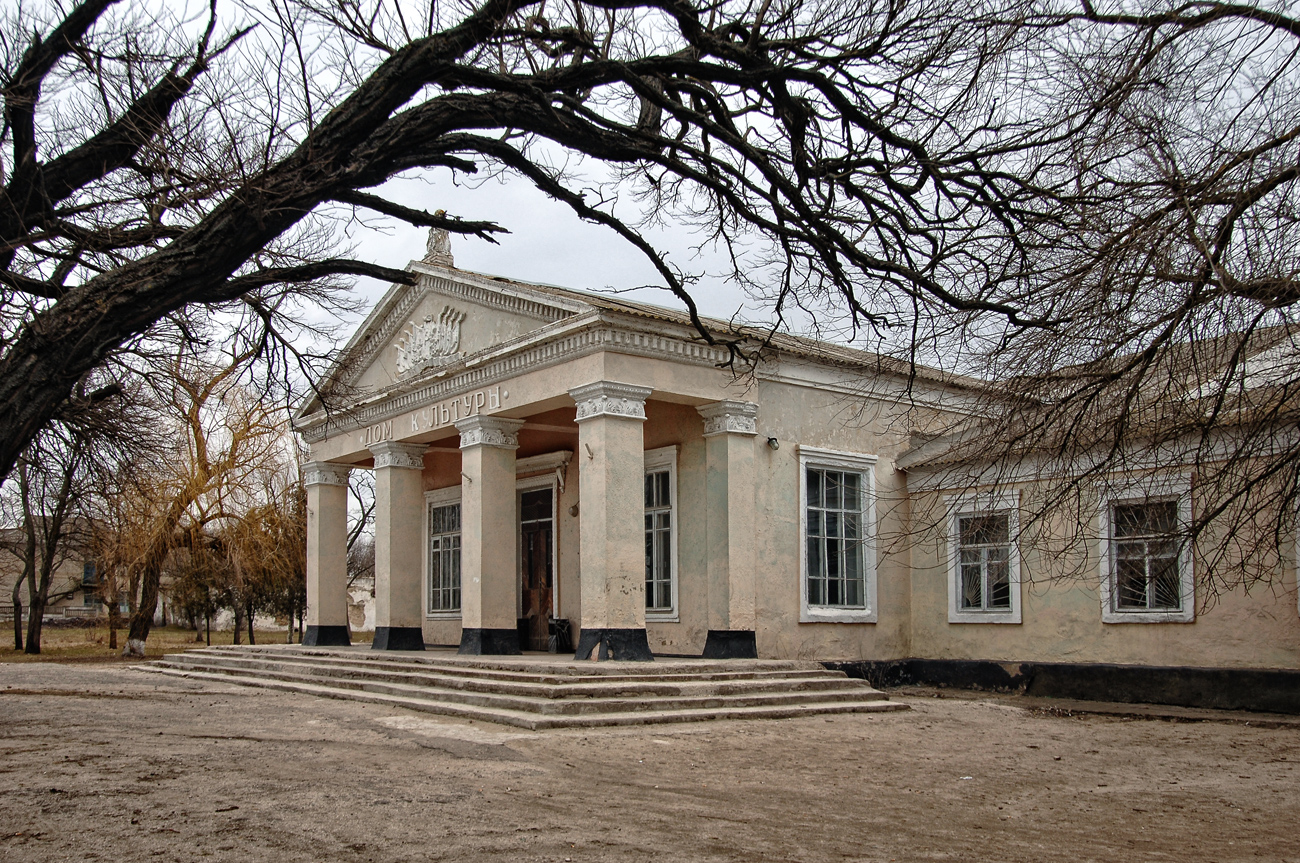 Club in Okhrymivka, Yakymivka raion, Zaporizhzhia oblast, Ukraine